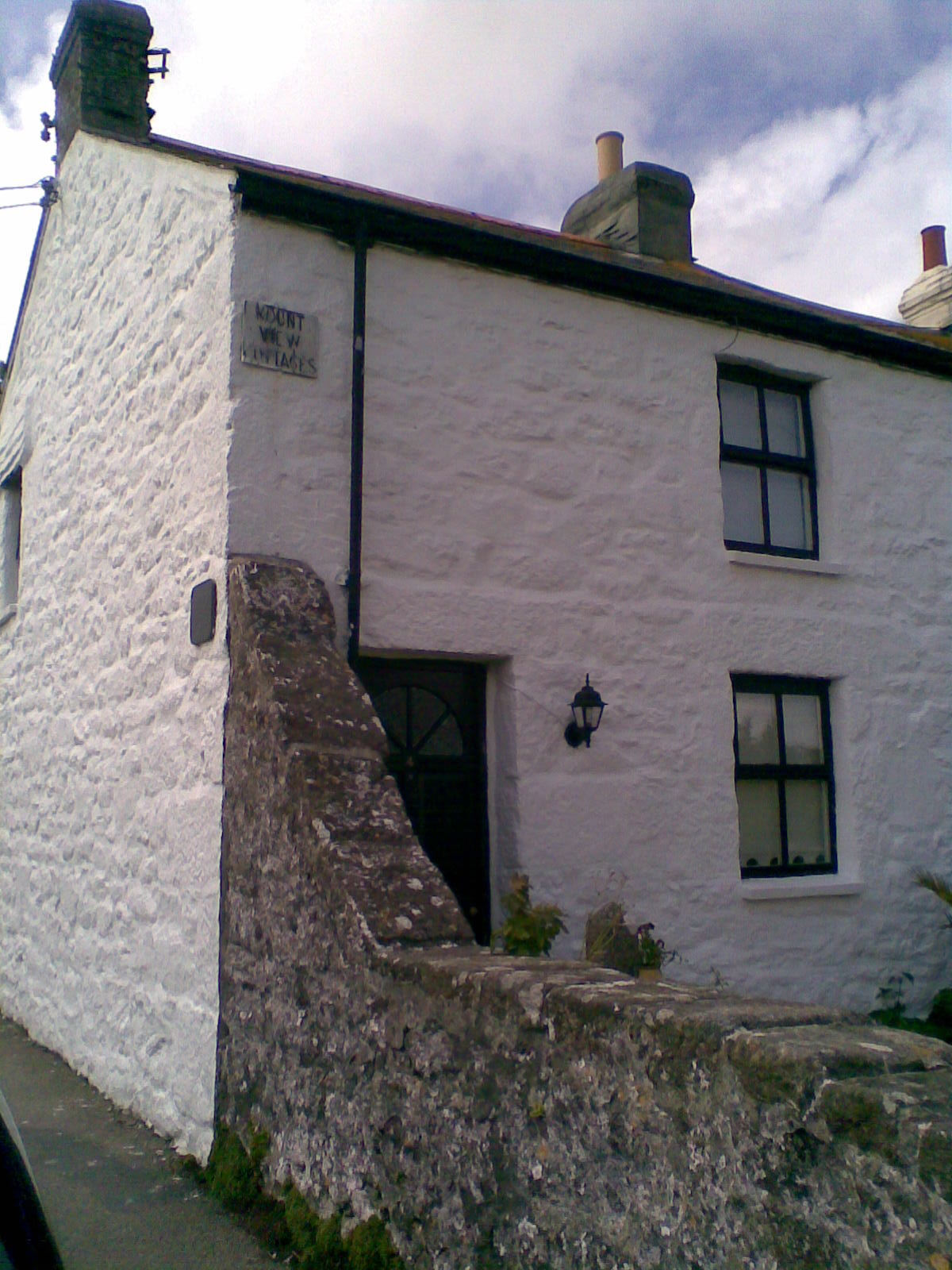 House in Madron, Cornwall, UK bearing an inscribed slate memorial to W S Graham (1918-1986) who lived at the house with his wife Nessie Dunsmuir between 1967 and his death in 1986. The house is at the western end of Fore Street, labelled "Mount View Villas".